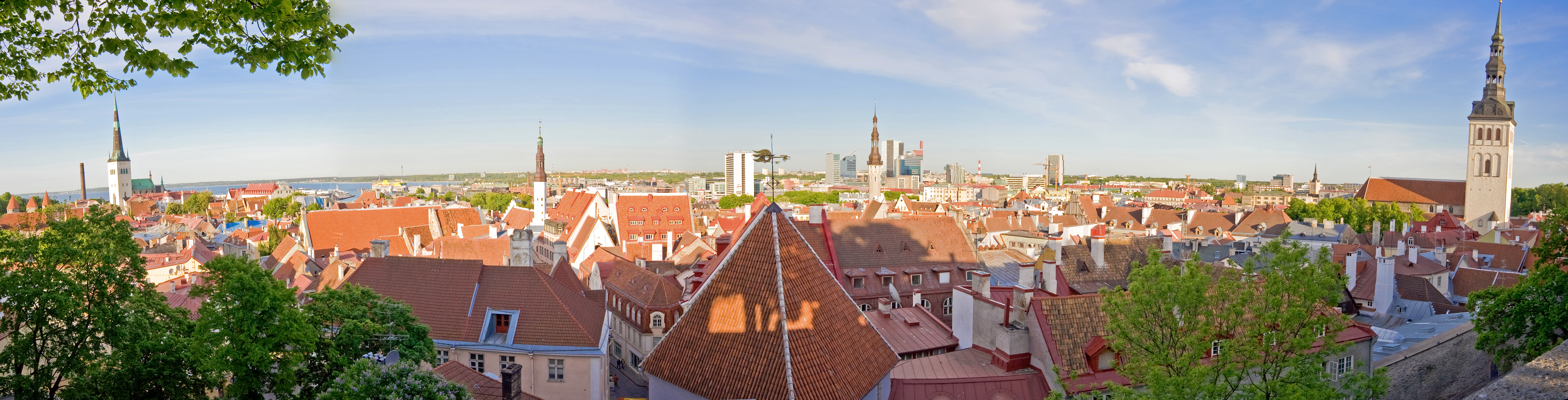 View of Tallinn from the Kohtuotsa viewing platform in Toompea.